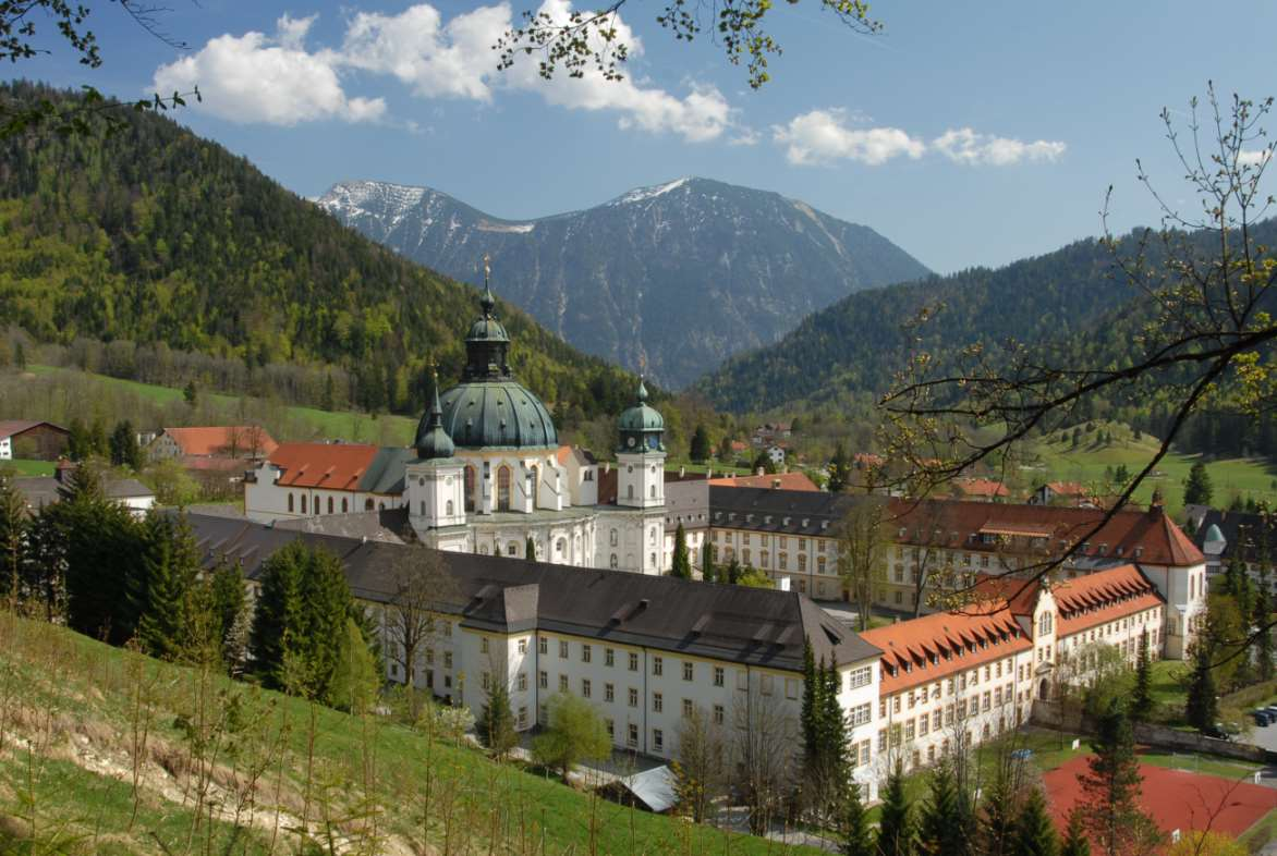 Kloster Ettal (monastery), monasterybuildings